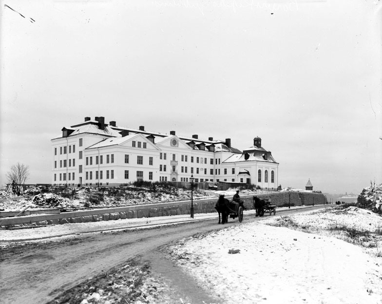 Borgarskapets gubbhus in Stockholm in 1914